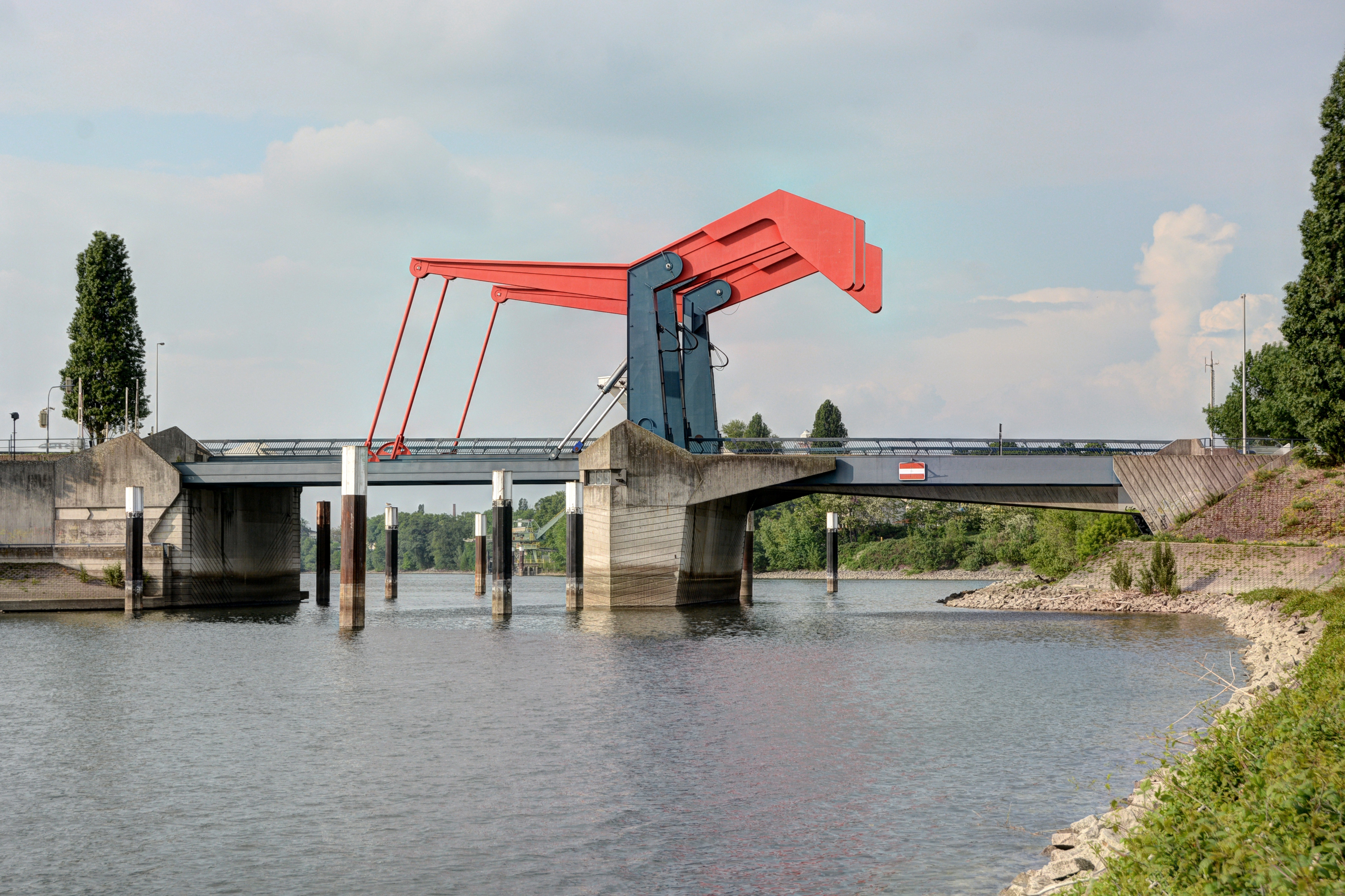 Diffené bridge, Mannheim, Germany, view to north from Industry Harbor